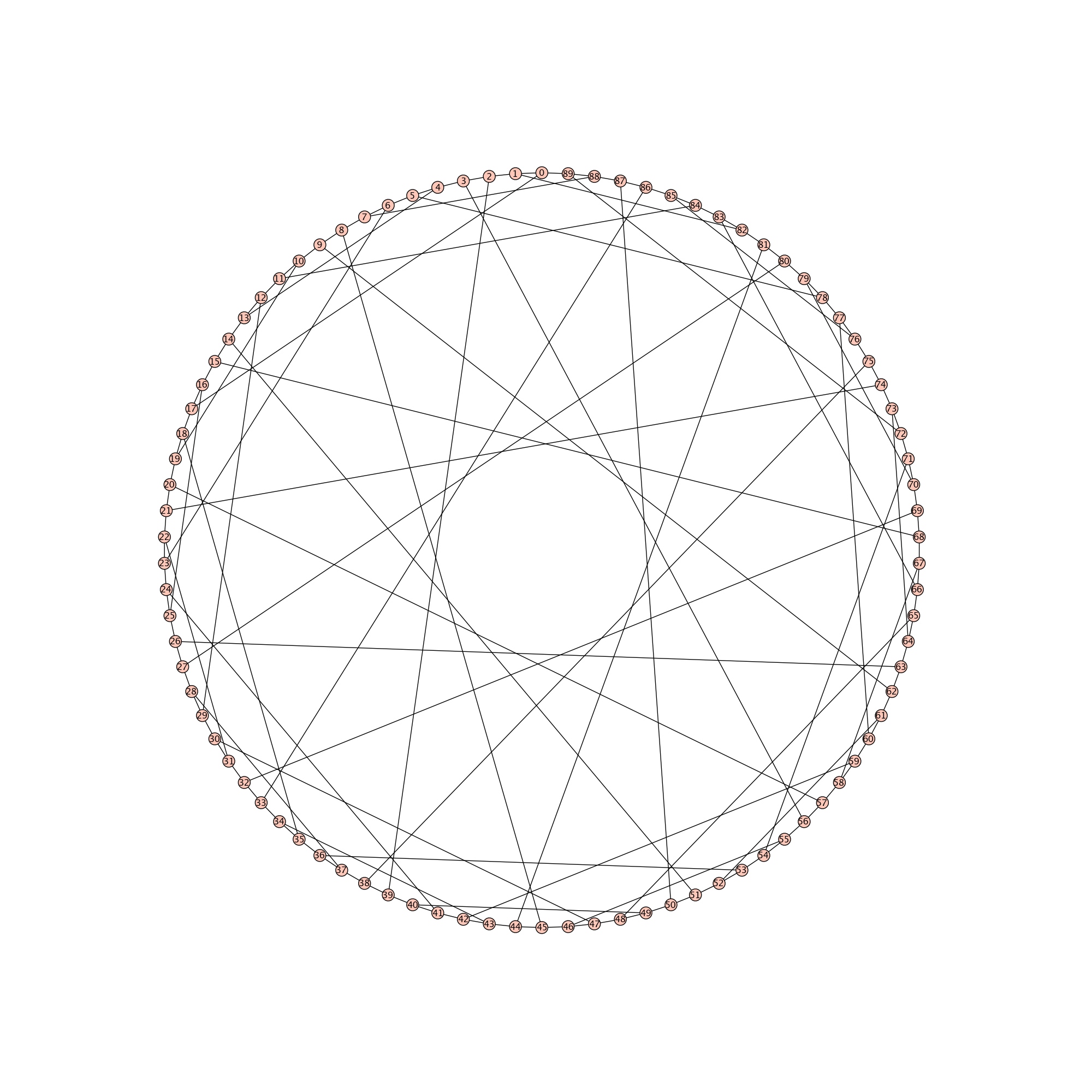 Foster graph hamiltonian.png